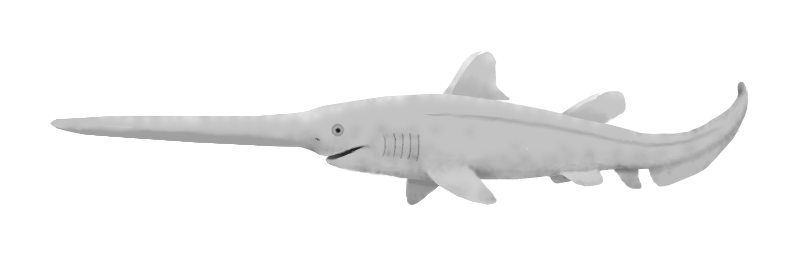 Life restoration of the small, peculiar Carboniferous chondrichthyan Bandringa rayi. References File:Bandringa rayi fossil shark, Mazon Creek Lagerstatte.jpg Compagno, Leonard J. V. (2004). "Alternative life-history styles of cartilaginous fishes in time and space". Environmental Biology of Fishes 38: 33-75. (Fig. 25)